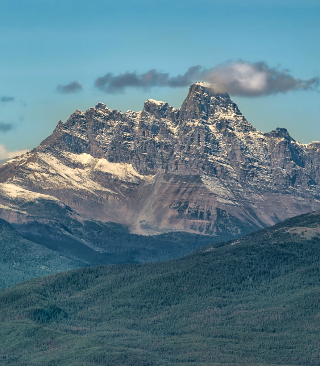 Alberta's distant Mt. Bridgland seen from Jasper's Whistler Gondola.